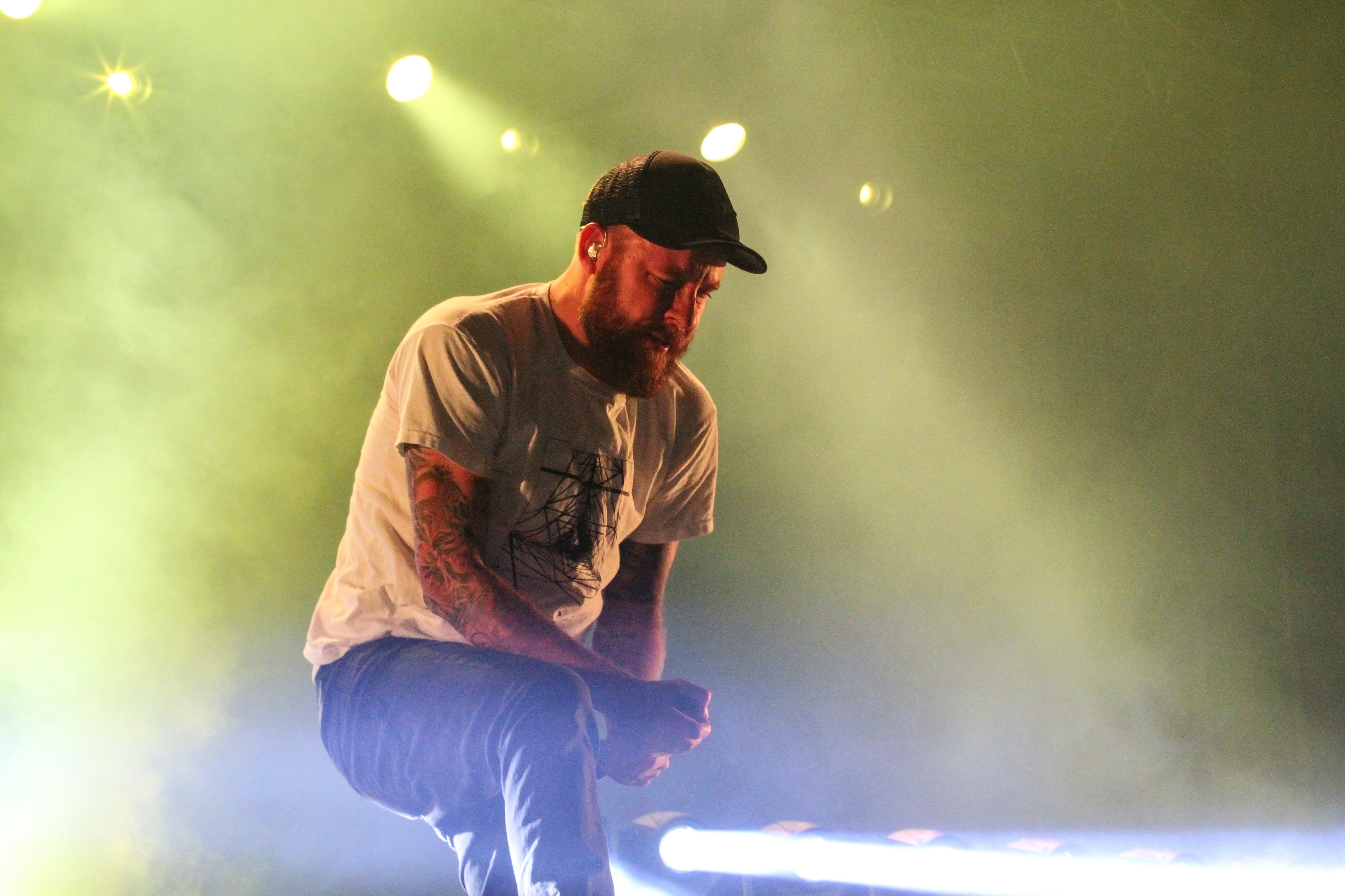 In Flames performing at With Full Force Festival 2013